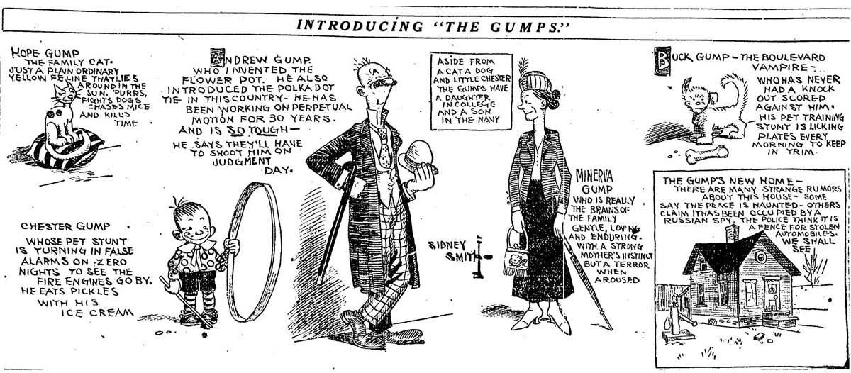 The first appearance of the cartoon strip The Gumps in The Chicago Daily Tribune on February 12, 1917.